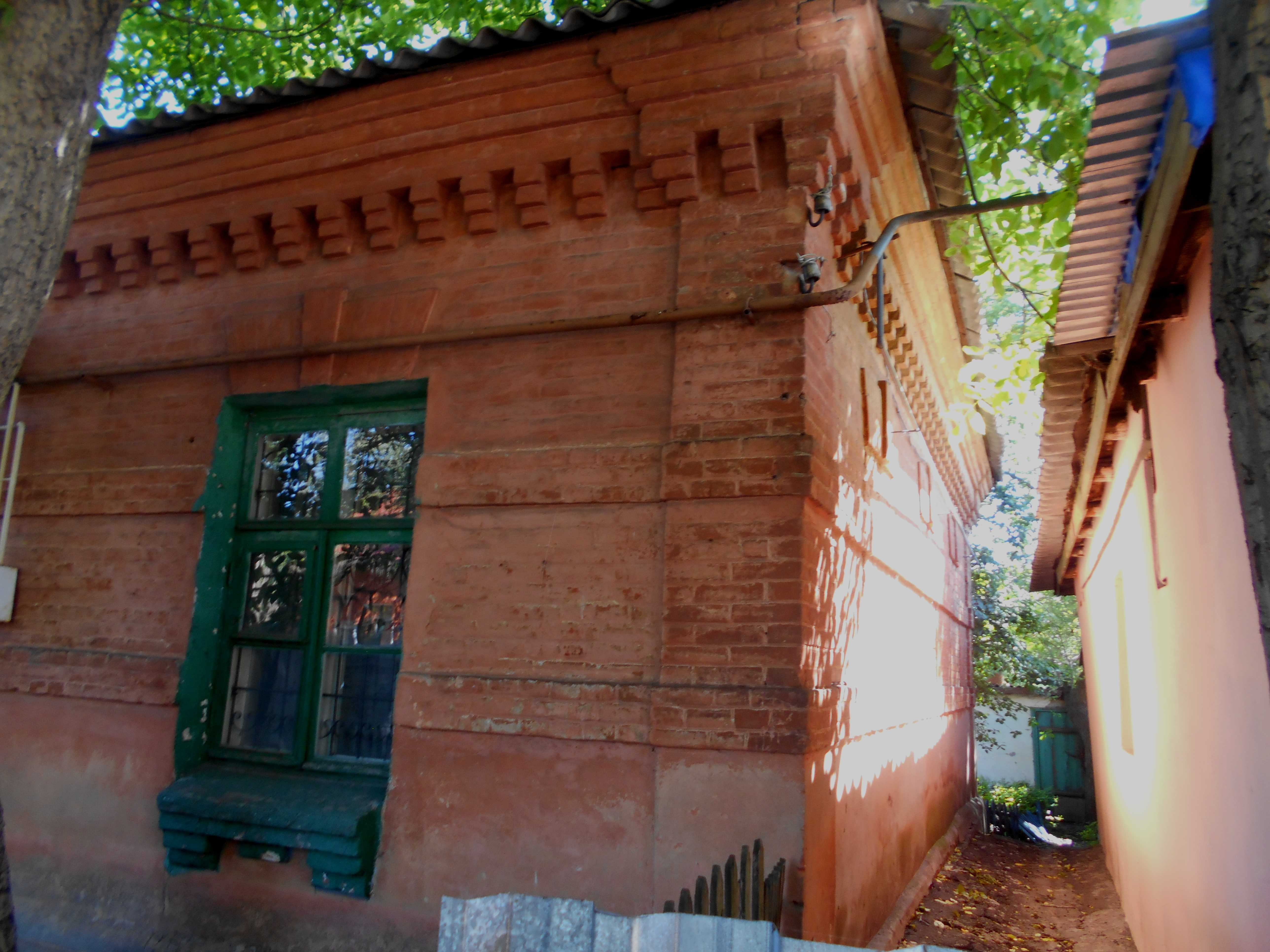 Колония основана в 1998 году. Сейчас жилой дом на нескольких хозяев.